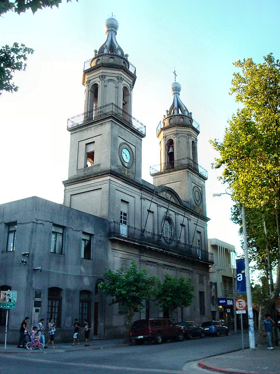 Parroquia San Isidro, Plaza de Las Piedras, Canelones, Uruguay.